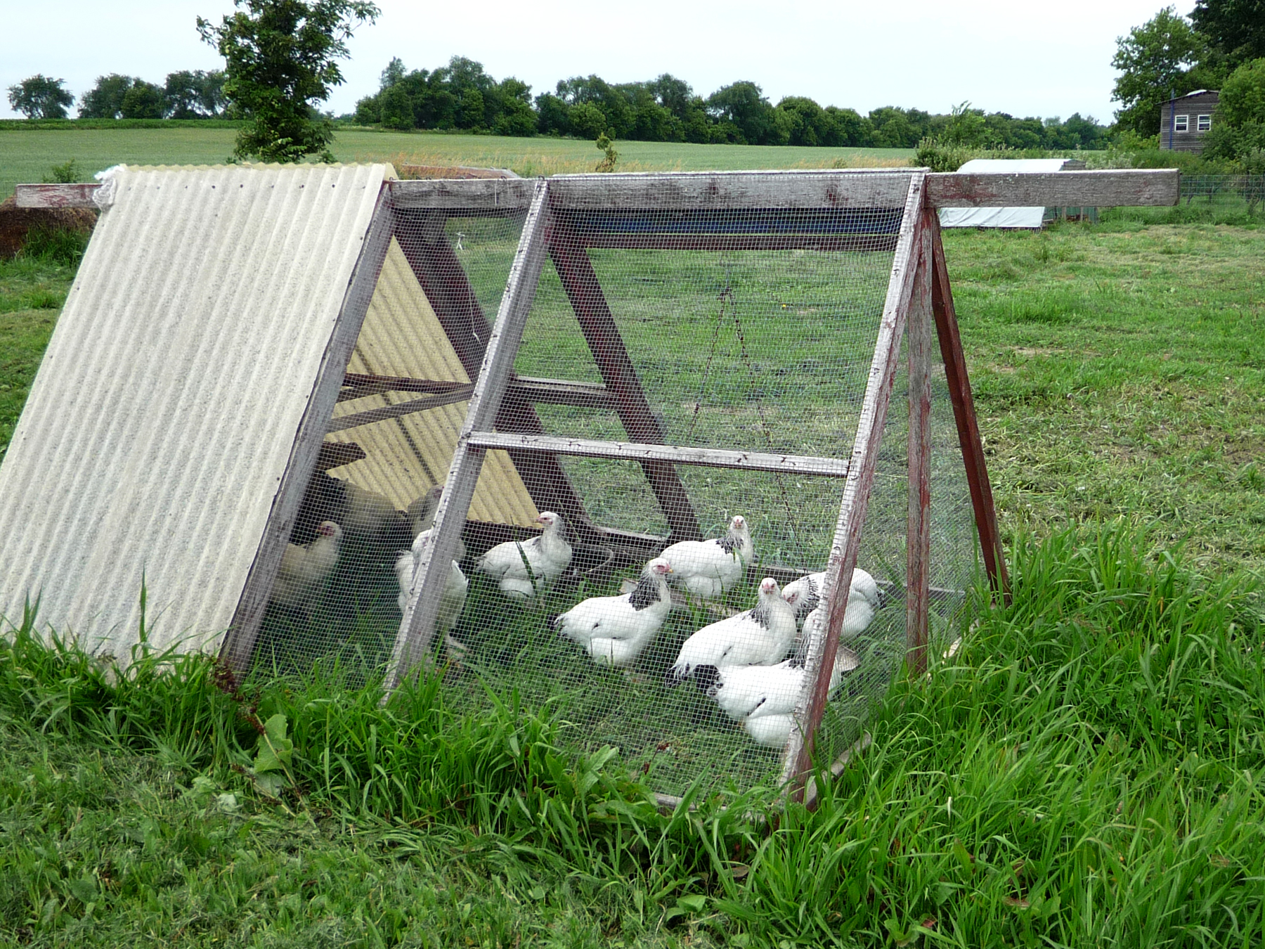 Chickens in the chicken tractor at an organic farm.